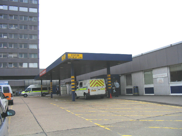 Basildon University Hospital, Essex. Shown here is the main A & E, which covers south-west Essex